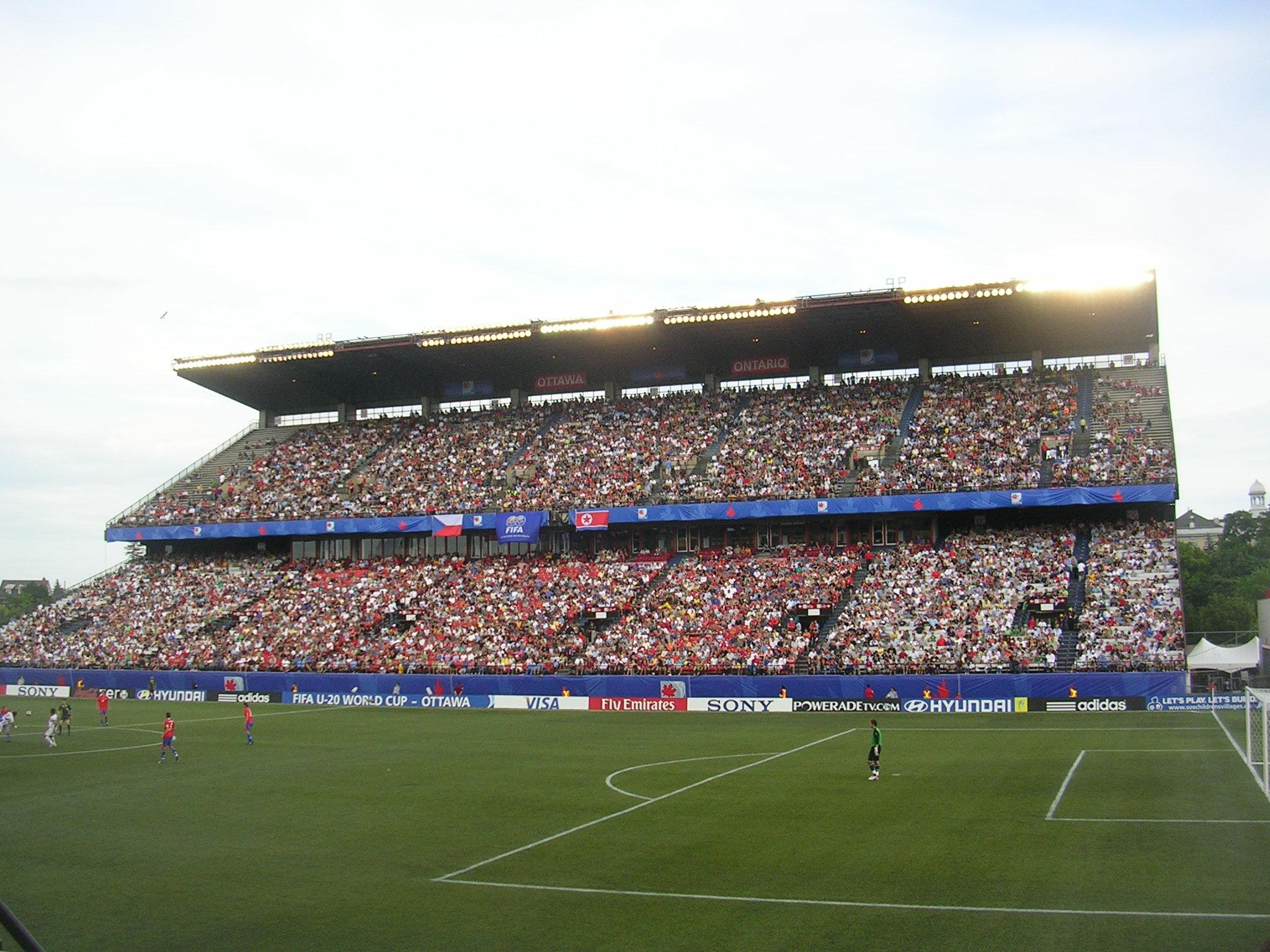 Frank Clair Stadium - south side stands during a soccer game.